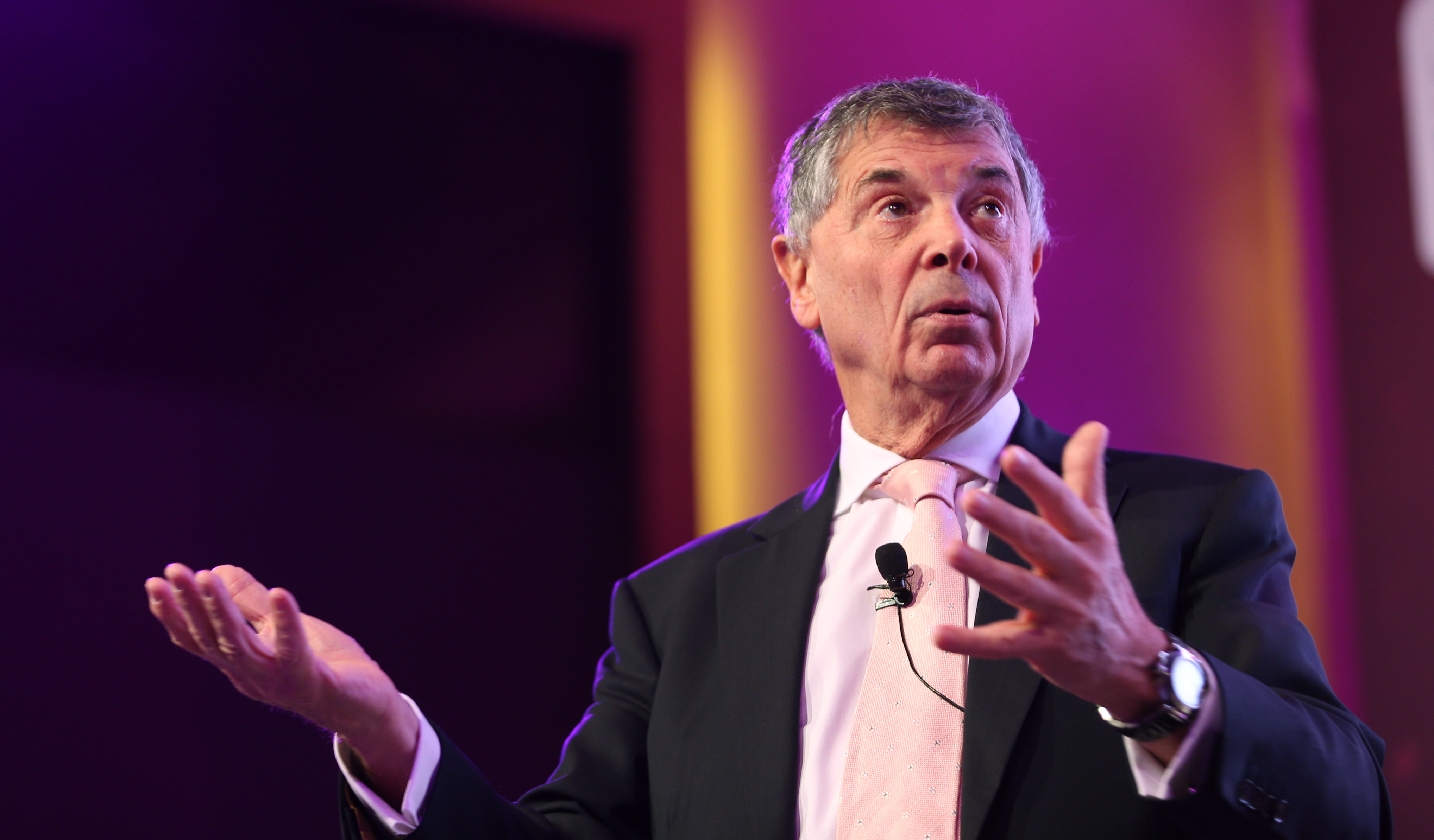 Former England FA and Arsenal vice-chairman David Dein speaks at the Soccerex Asian Forum in Doha. Doha Stadium Plus/K Mohan